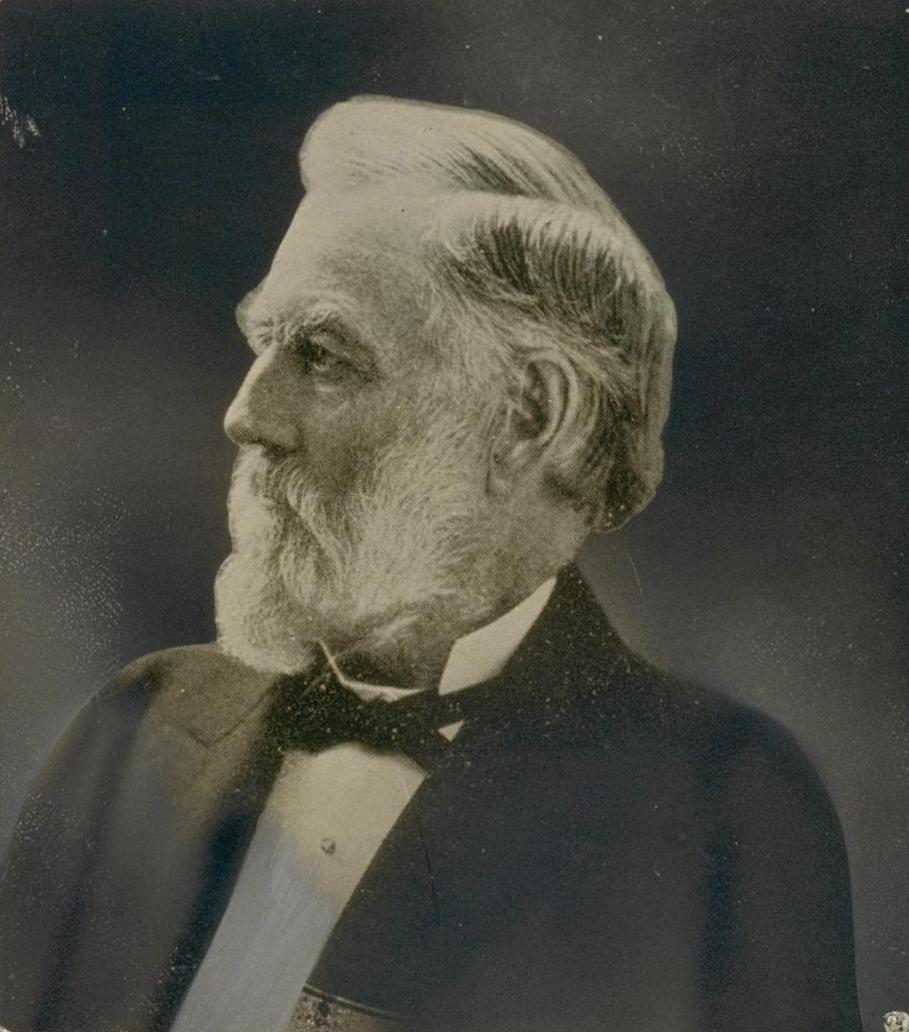 Alvinza Hayward (1822-1904), known as "California's first millionaire" and "the richest man in California"